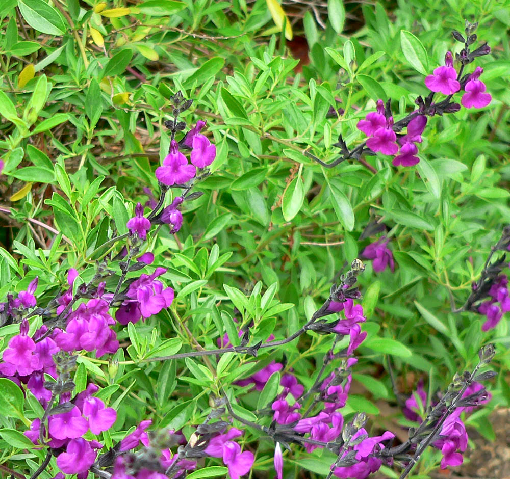 Photo of Salvia muelleri at the University of California Botanical Garden